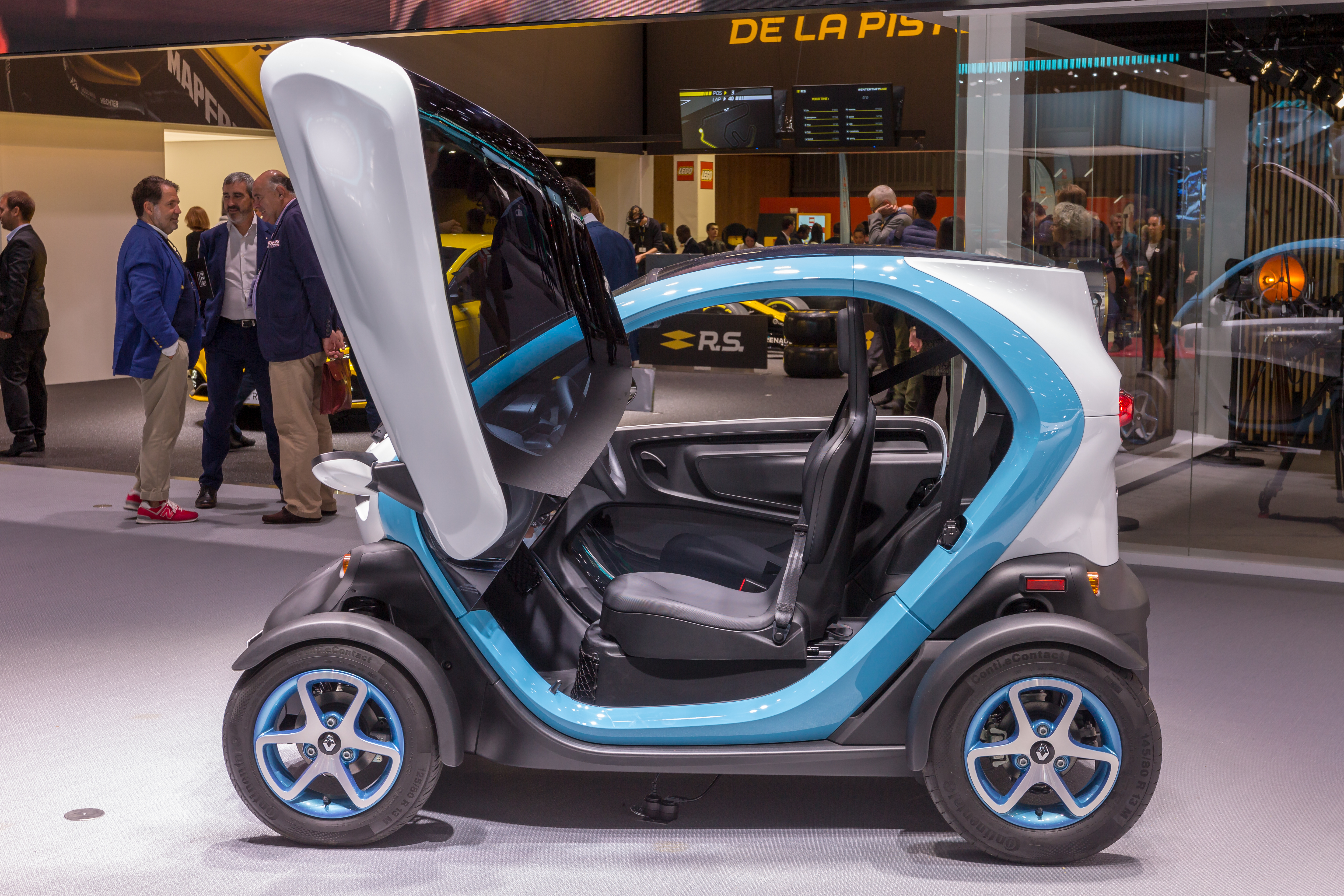 Renault Twizy, Mondial Paris Motor Show 2018